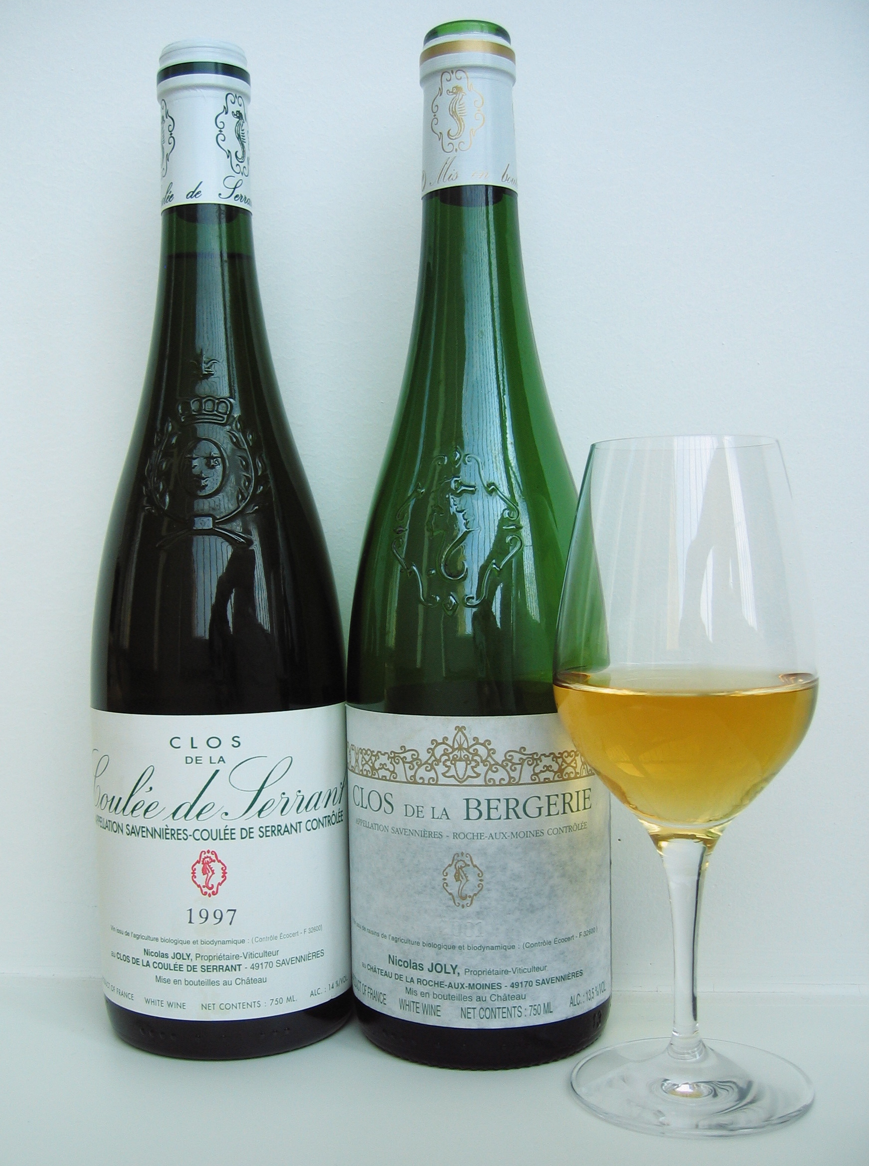 Two wines from Nicolas Joly, a biodynamic producer of Savennières wine. Left Clos de la Coulée de Serrant 1997 (from the appellation Savennières-Coulée de Serrant), right Clos de la Bergerie 2001 (from the appellation Savennières-Roche aux Moines). The wine in the glass is Clos de la Bergerie 2001.